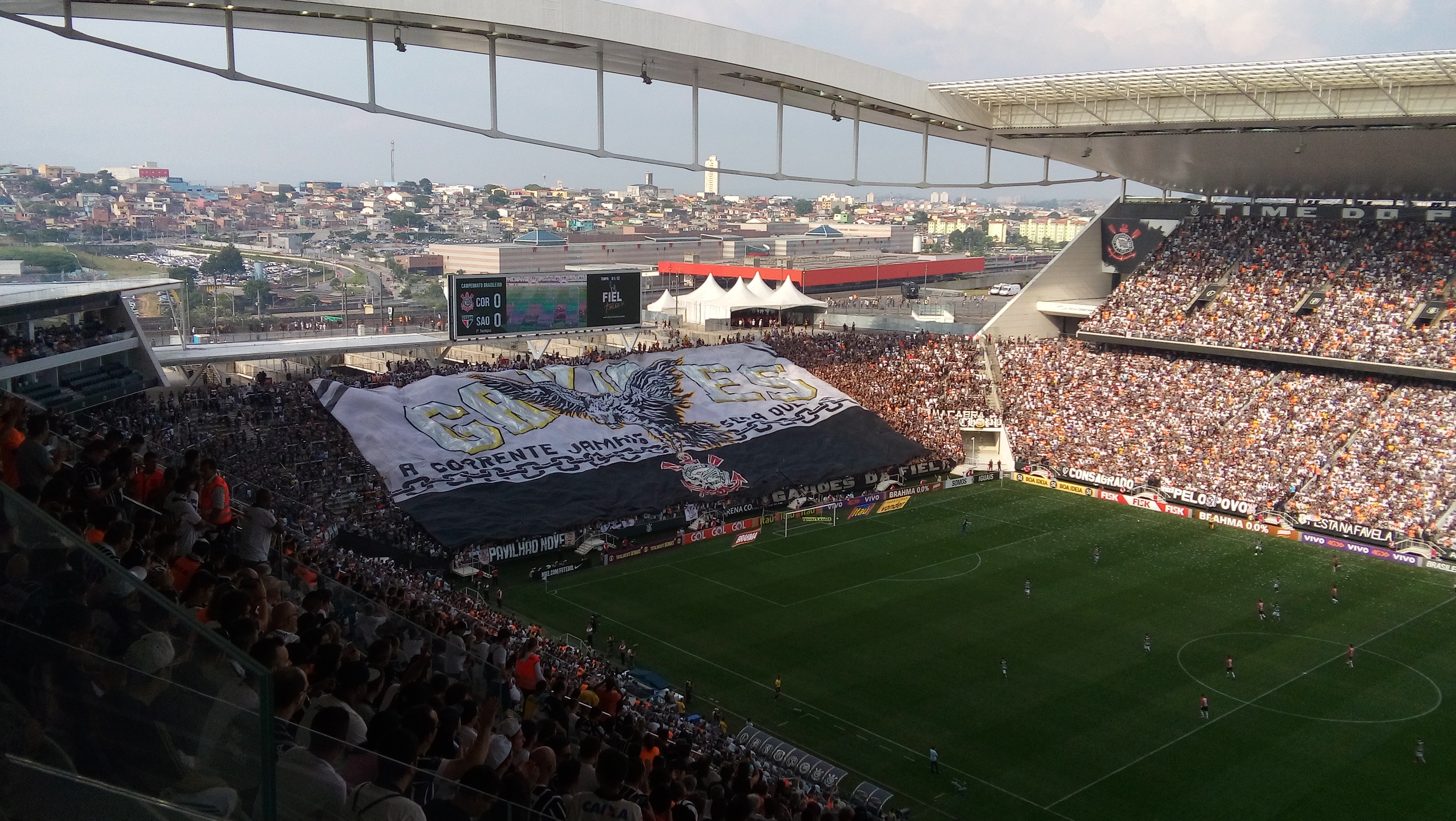 Majestic derby between Corinthians vs. São Paulo in 2015